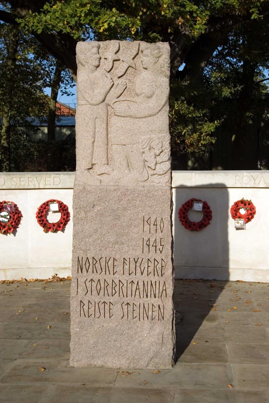 Norwegian Memorial. This is the memorial to the Norwegian airmen who served at North Weald Aerodrome during WW2. It was dedicated by Princess Astrid in 1953 it became a focus of a much larger memorial when 268896 was built in 2000.